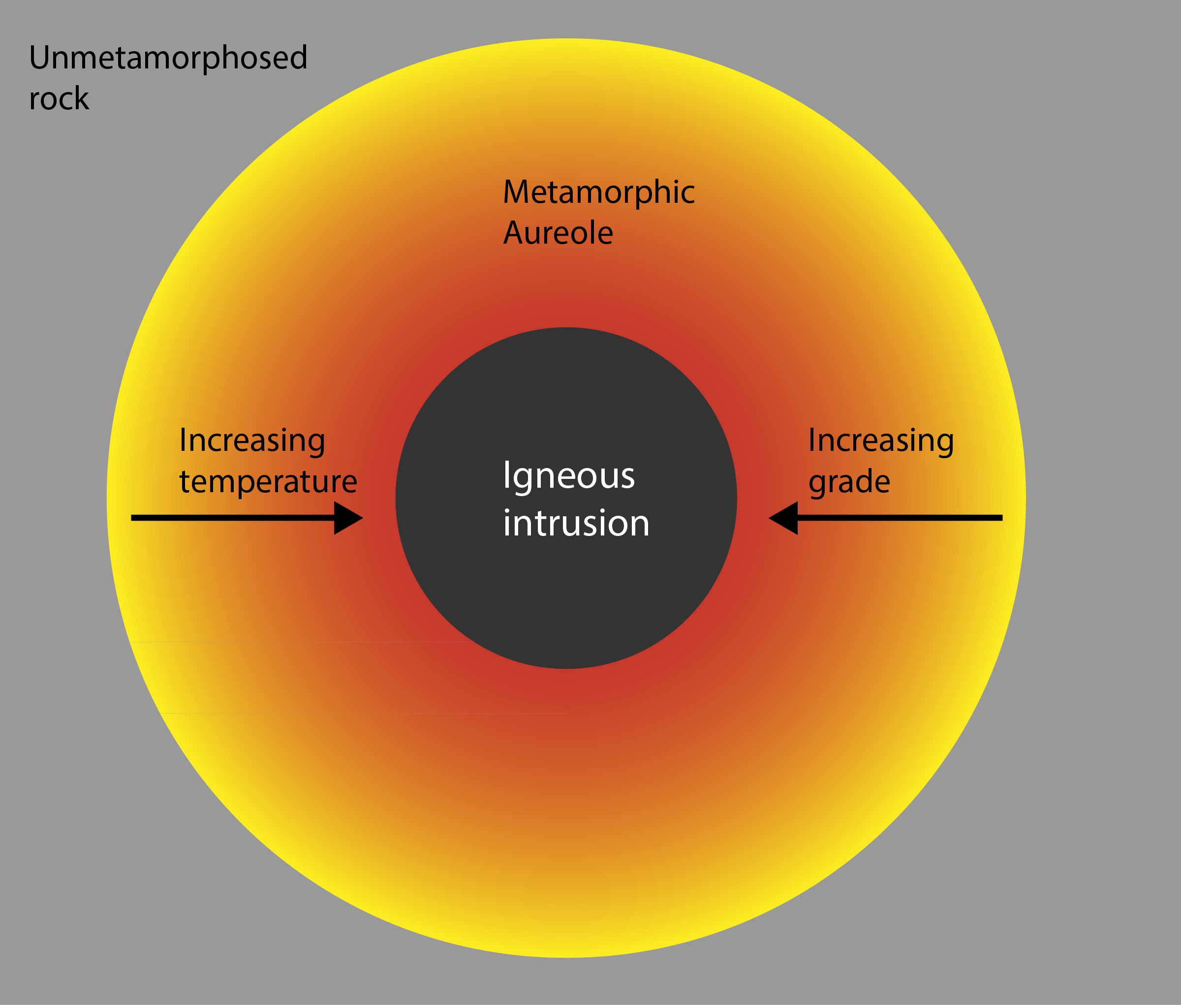 Contact metamorphism occurs often in proximity to an igneous intrusion.